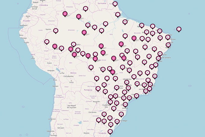 Braziliam museums map